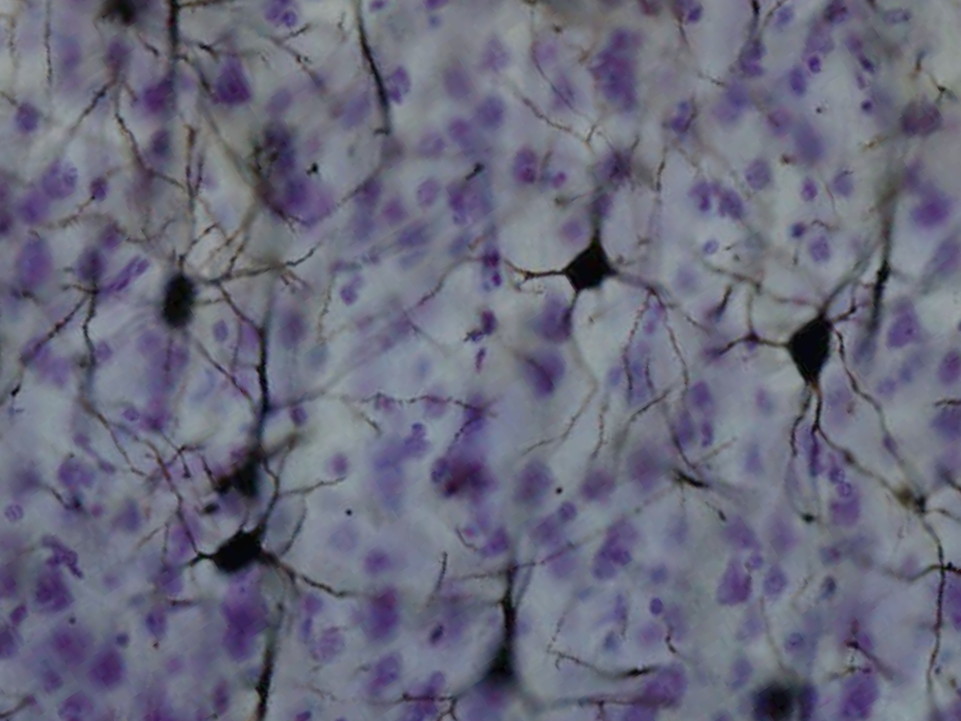 Description Golgi-stained neurons from somatosensory cortex in the macaque monkey. Additional licensing information Please note: UC Regents Davis campus maintains copyright of and licenses content under a form of a non-commercial license as per They have, however, released this and other select screenshots using the Creative Commons Attribution 2.5 license, as per and